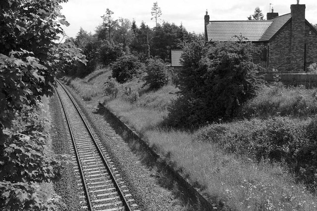 Mossley Station Platform The remains of Mossley Station Down Platform, looking towards Belfast. Mossley Station was unusual in that it was built on each side of the bridge, from where this photo was made.